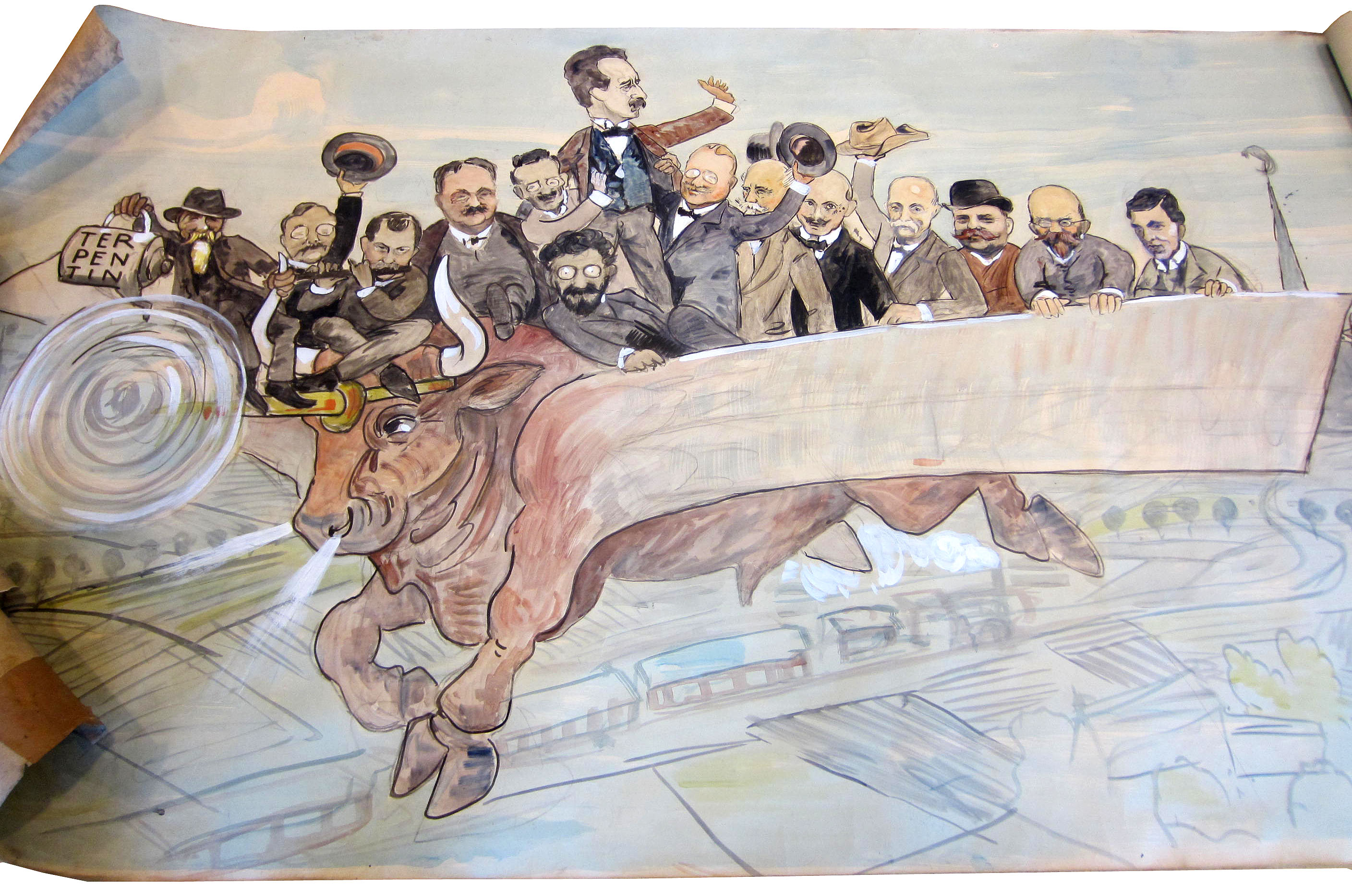 Painting from Lukasgillet in Lund Sweden from year 1910.